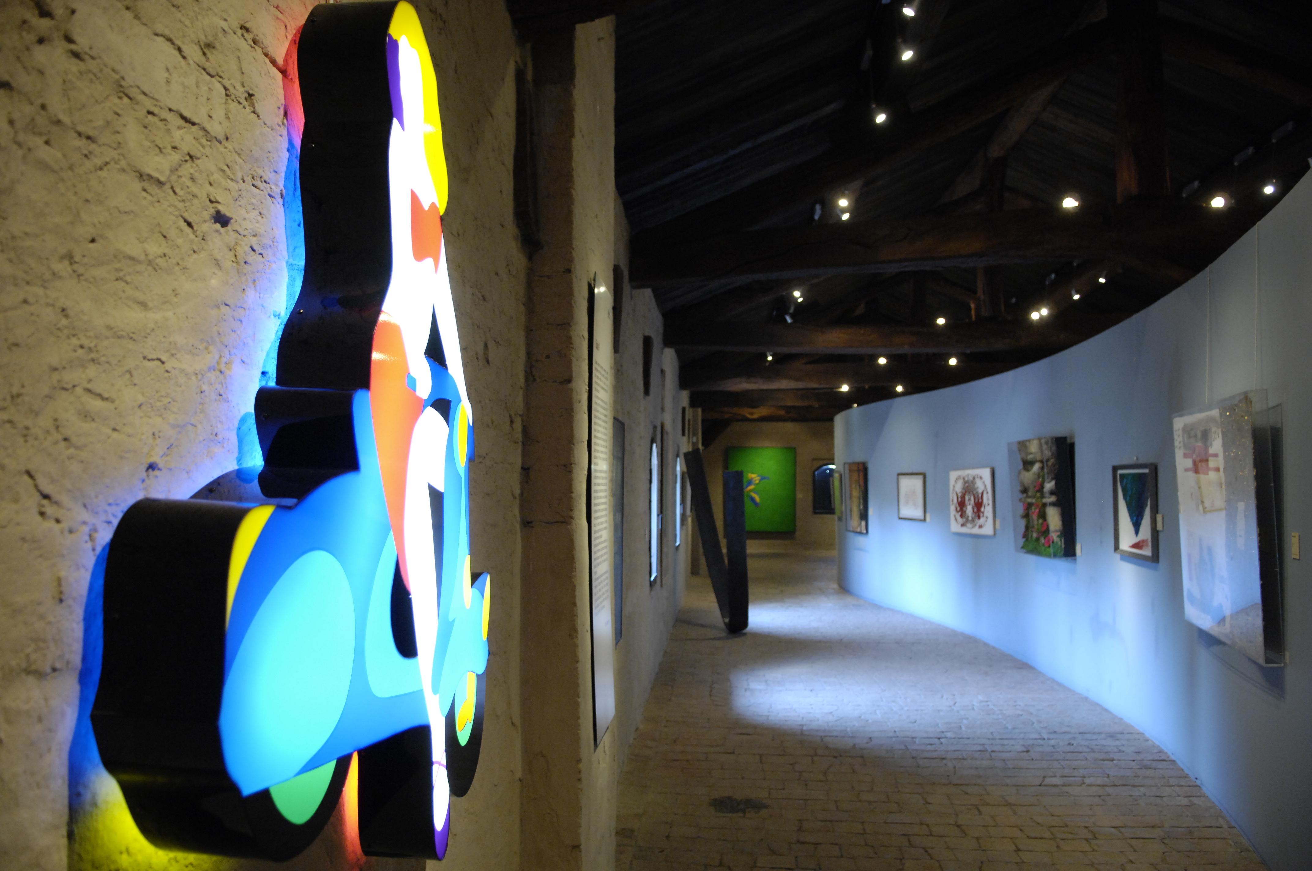 particolare del mim